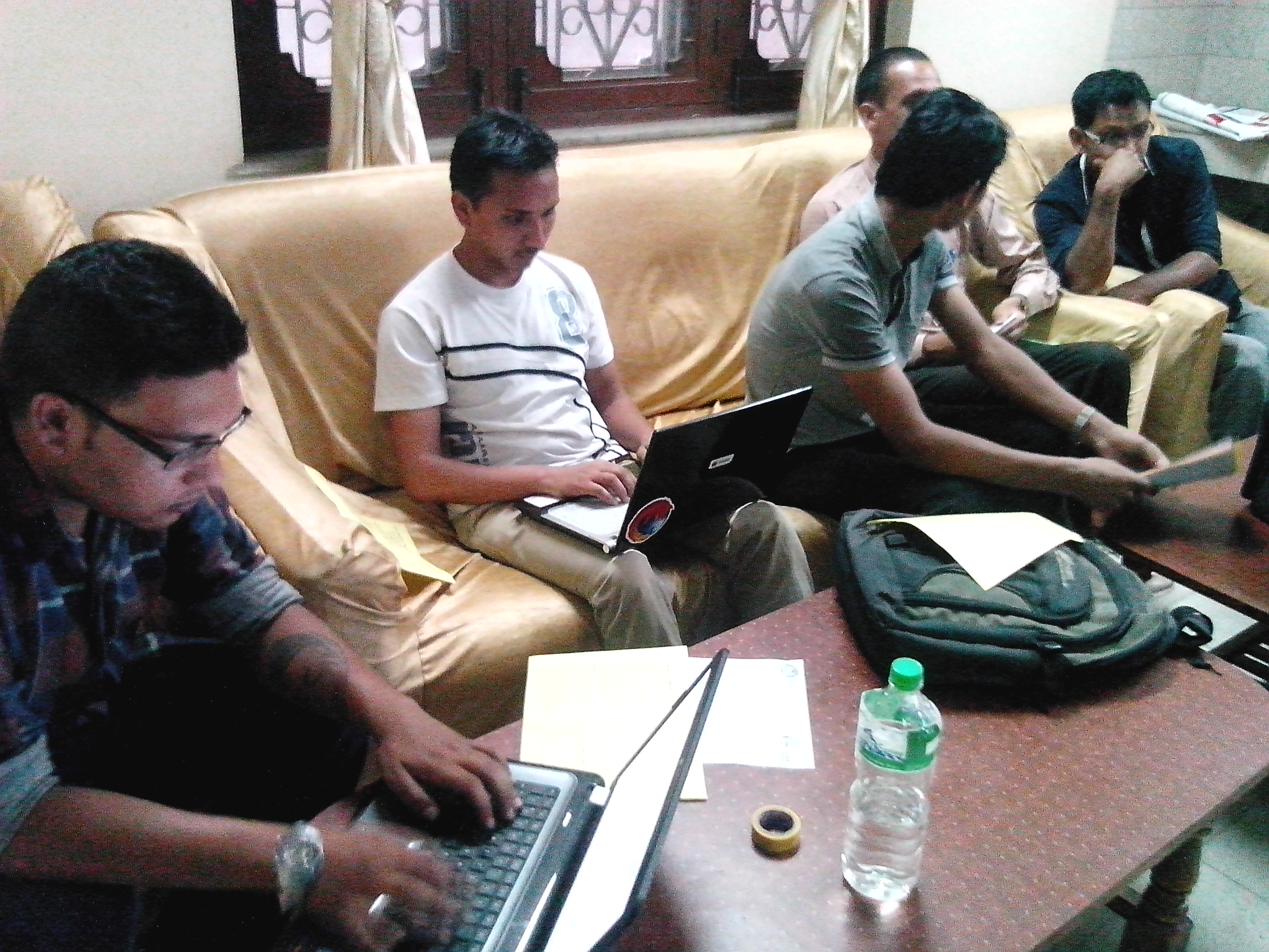 social media team updating on press meet of national environment week